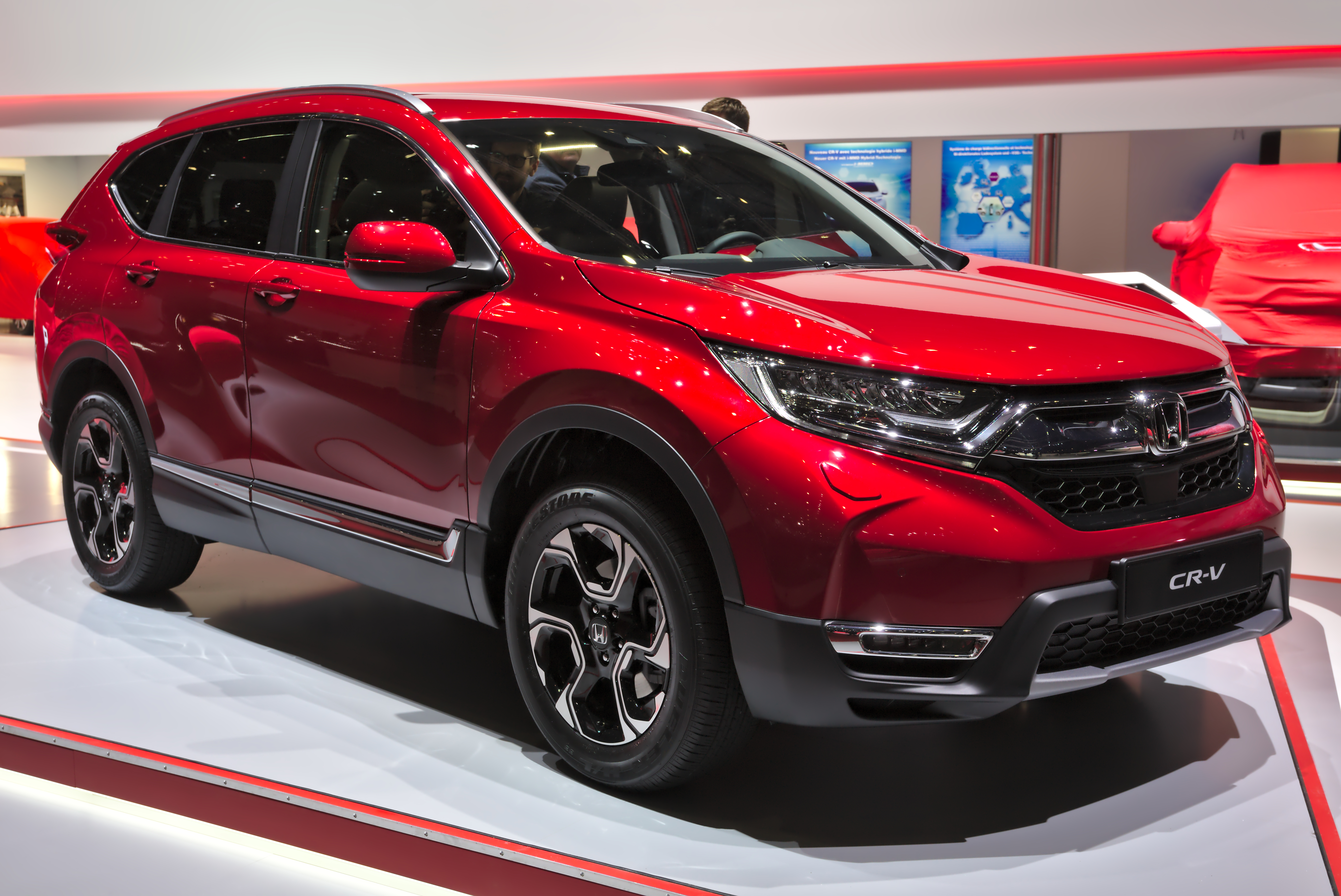 Honda CR-V at Geneva Motor Show 2018